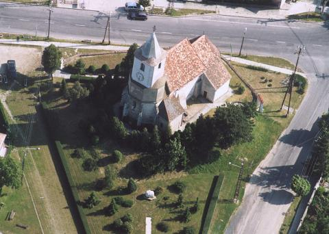 Hegyeshalom, Hungary, aerialphotography. Szent Bertalan római katolikus templom This is a photo of a monument in Hungary, Identifier: 4441